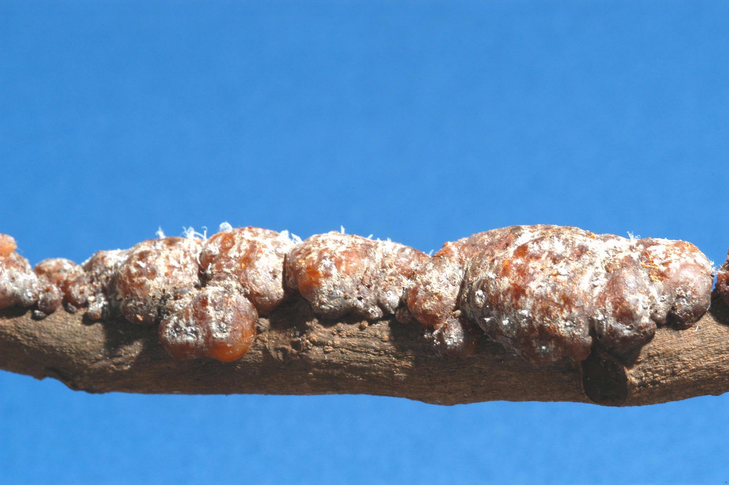 shellac at branch